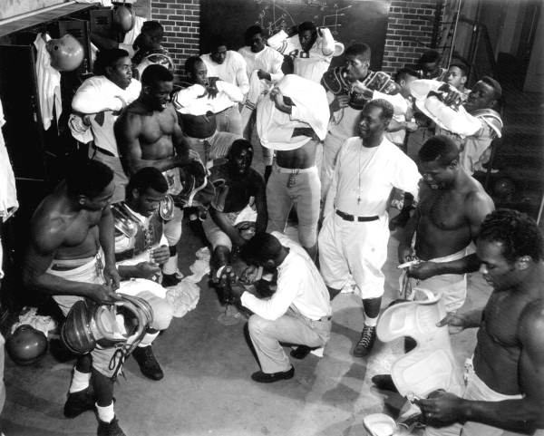 Local call number: C018796 Title: Coach Jake Gaither (standing, middle, white shirt) in the locker room with his Florida Agricultural and Mechanical University (FAMU) football team: Tallahassee, Florida Date: December 1953 General note: Alonzo "Jake" Gaither became the head football coach at FAMU in 1945 and held that position until 1969. During his tenure, Gaither amassed 203 victories and won 85% of the games he coached. In 1984, the Florida Department of State designated Gaither as a Great Floridian for his significant contributions to the history and culture of Florida. Physical descrip: 1 photoprint - b&w - 4 x 5 in. Series Title: Department of Commerce collection Repository: State Library and Archives of Florida, 500 S. Bronough St., Tallahassee, FL 32399-0250 USA. Contact: 850.245.6700. Persistent URL: Visit Florida Memory to find resources for Black History Month and to learn about the contributions of African-Americans in Florida history. Visit Florida Memory to learn more about the history of college football in Florida.